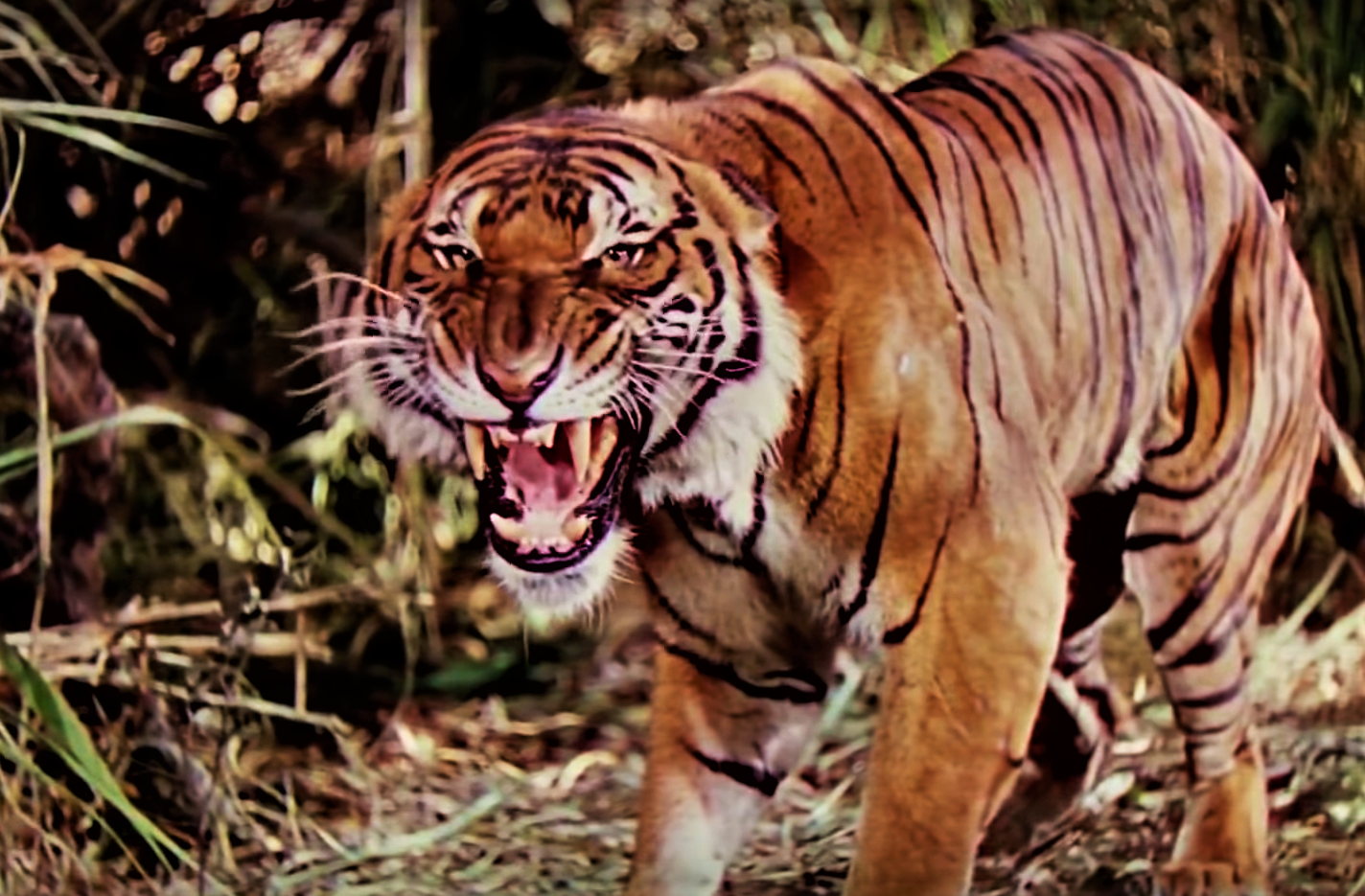 Shere Khan in Jungle Book - cropped screenshot